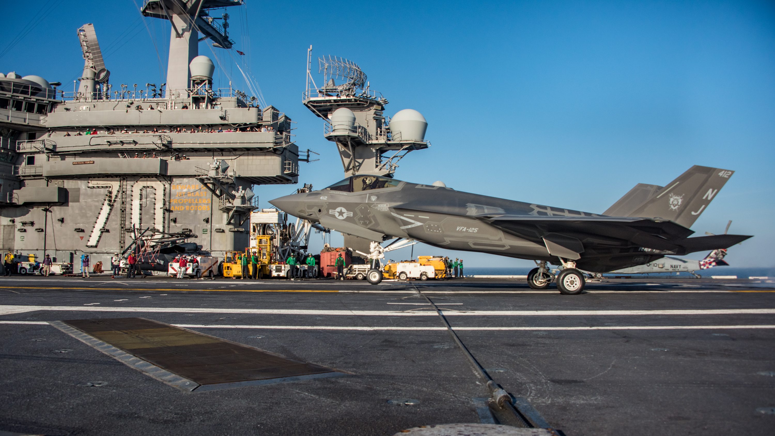 A U.S. Navy Lockheed Martion F-35C Lightning II (BuNo 169303) from Strike Fighter Squadron 125 (VFA-125) "Rough Raiders" makes an arrested landing on the flight deck of the aircraft carrier USS Carl Vinson (CVN-70). Carl Vinson was conducting fleet replacement squadron carrier qualifications off the coast of Southern California.